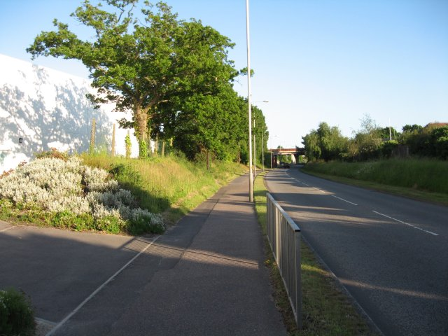 Broadstone Way at Fleetsbridge Broadstone Way was converted slowly in the 1970s from a railway line to a road connecting Poole and Broadstone The Somerset and Dorset Railway line was closed under Dr Beeching's orders around 1966. In the distance is part of the Fleetsbridge interchange, on the left part of the large Tesco superstore. The oak tree in the centre has seen many big changes in the last 70 years